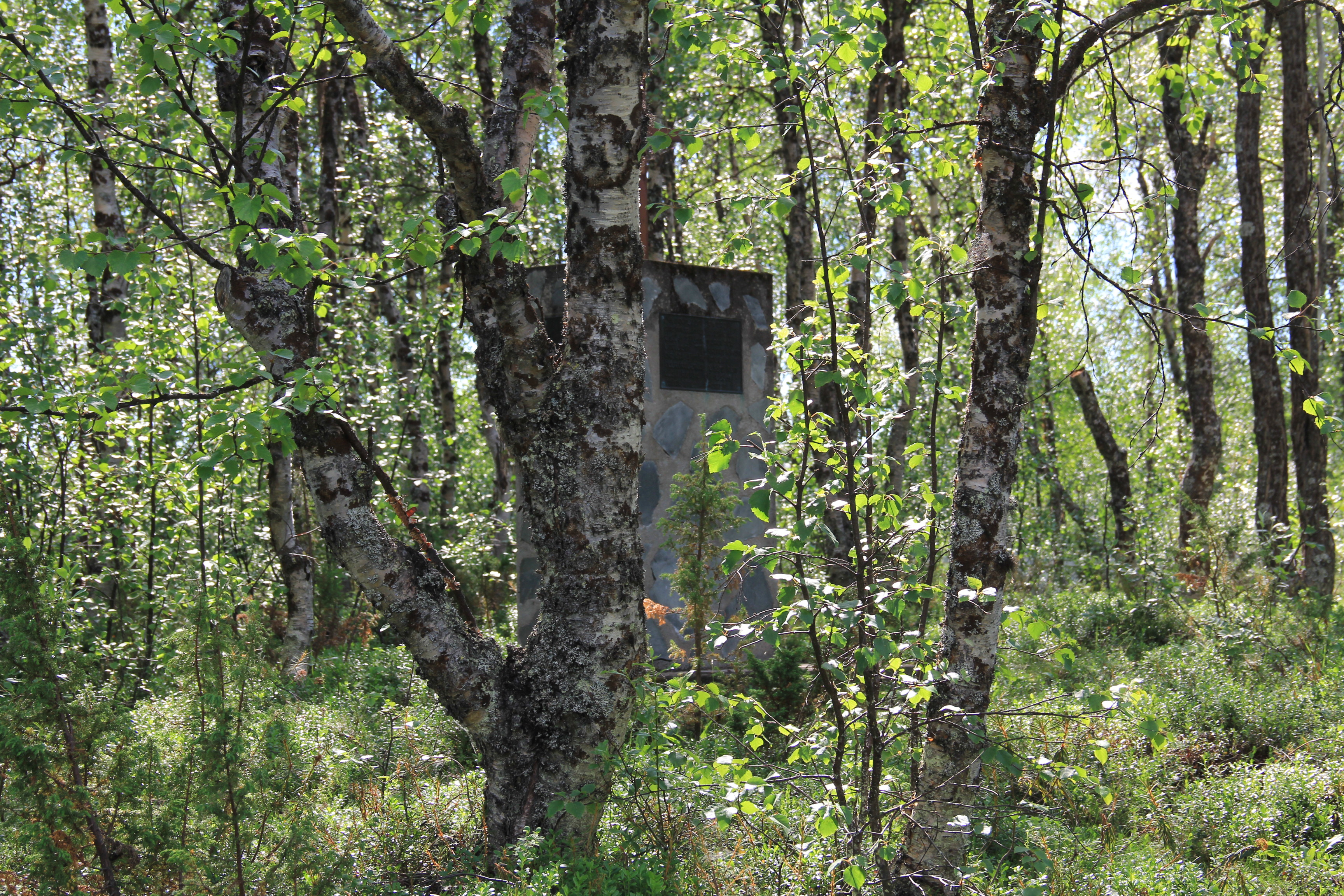 Palojoensuu former church site, Enontekiö, Finland. - Church was located here between 1826 and 1870.